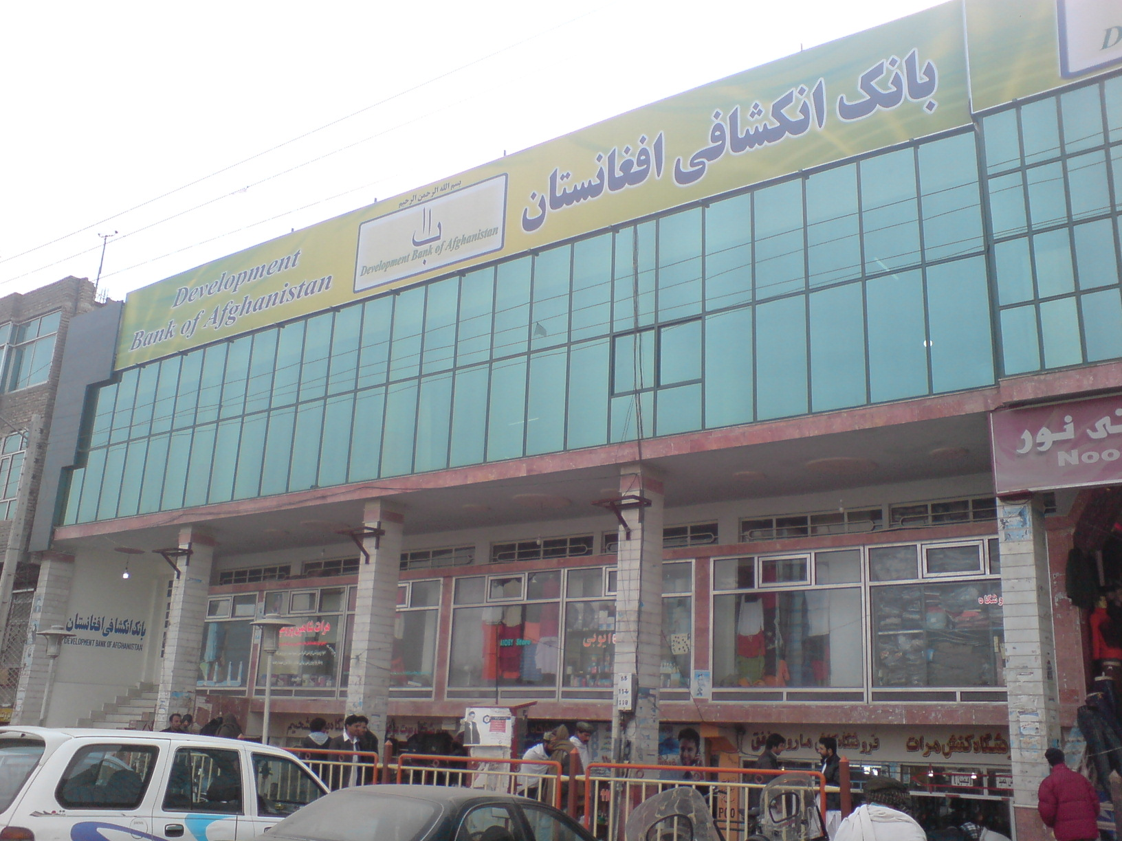 Development Bank of Afghanistan